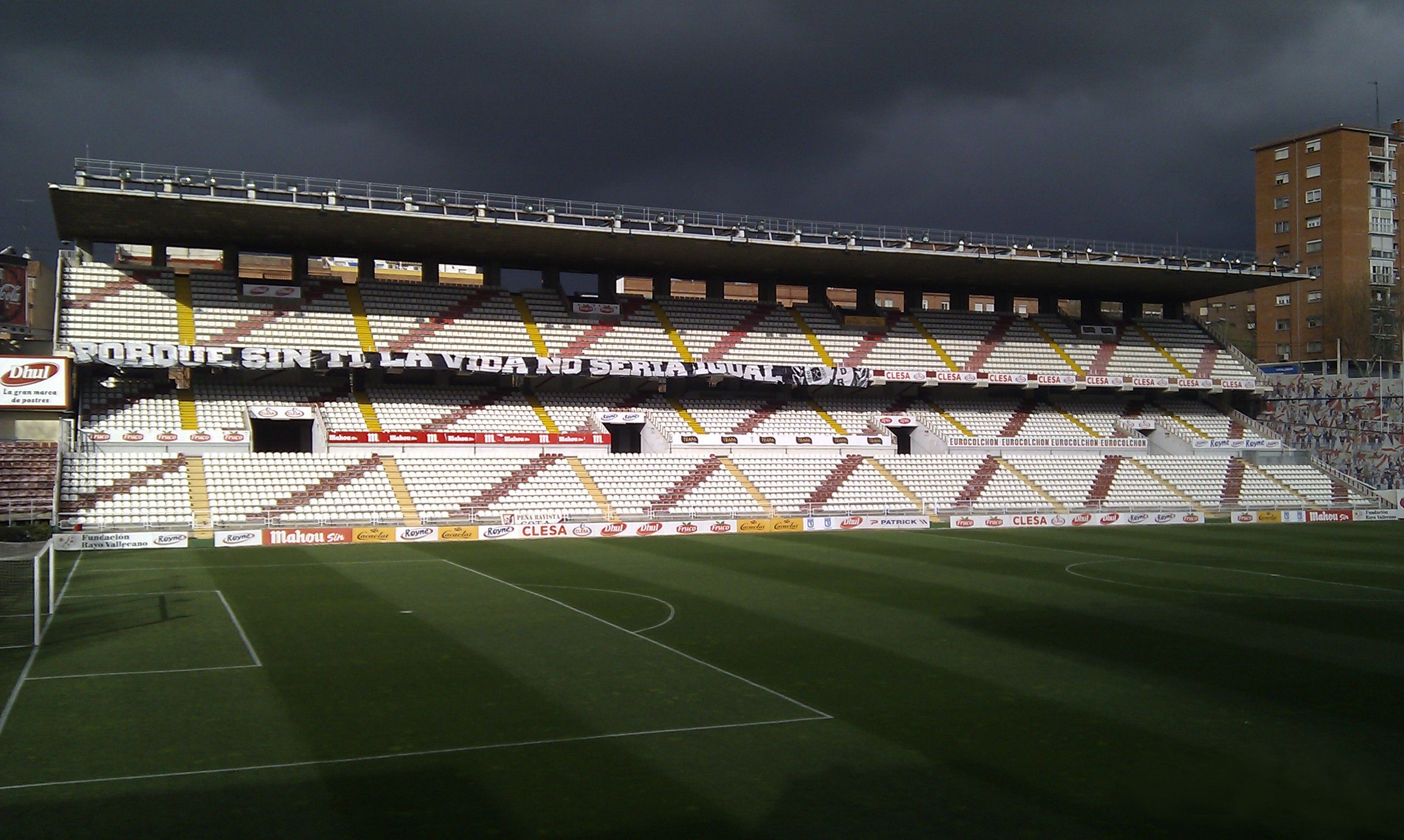 Photo Vallecas Football Stadium taken minutes before the game Betis - Lightning Vallecano of the season 2010 - 2011 Spanish Second Division. This picture is the first with the new image of the stadium as during the previous week perimeter fences removed.